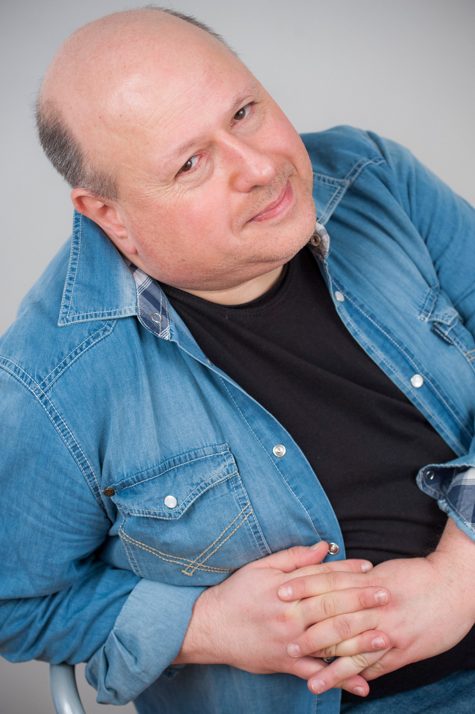 Roberto Mattioli in the year 2015